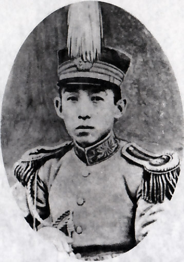 Chen Yi (Ch'en Yi) (1870 - 1939)